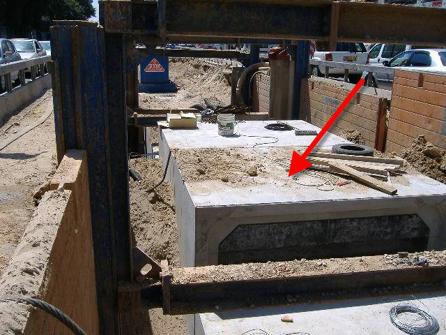 Tunnel construction infrastructure, Haifa - Prefabricated element of the tunnel has already placed in the ditch, marked with a red arrow.